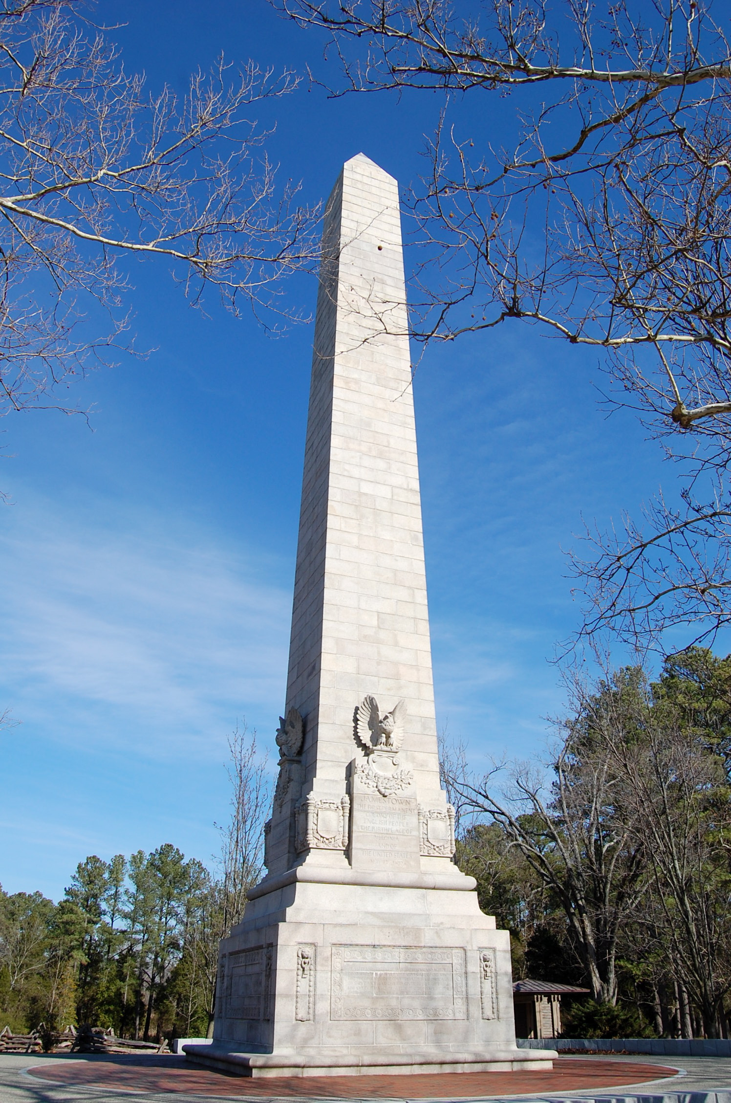 The Tercentennial Monument in Historic Jamestowne (Jamestown, VA).